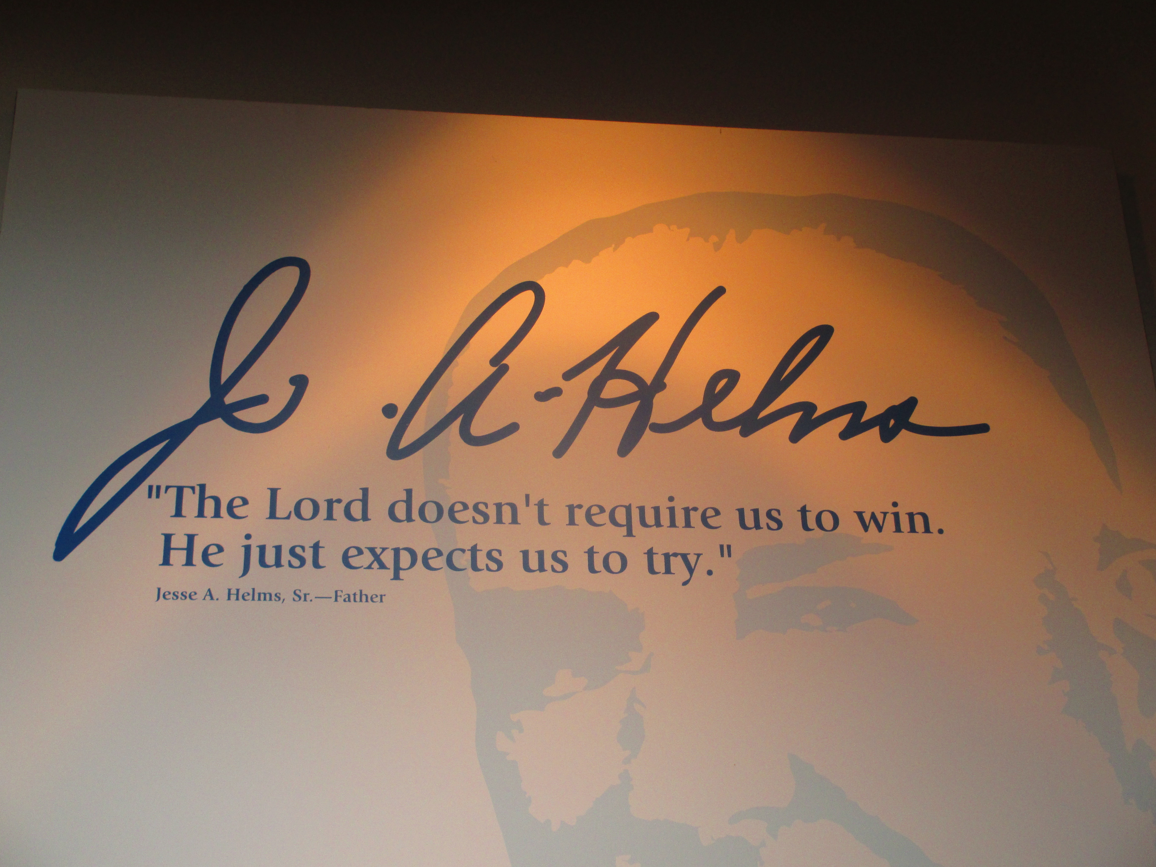 I took photo of quotation and signature of Jesse Helms, Sr., at Jesse Helms Center in Wingate, NC, with Canon camera.